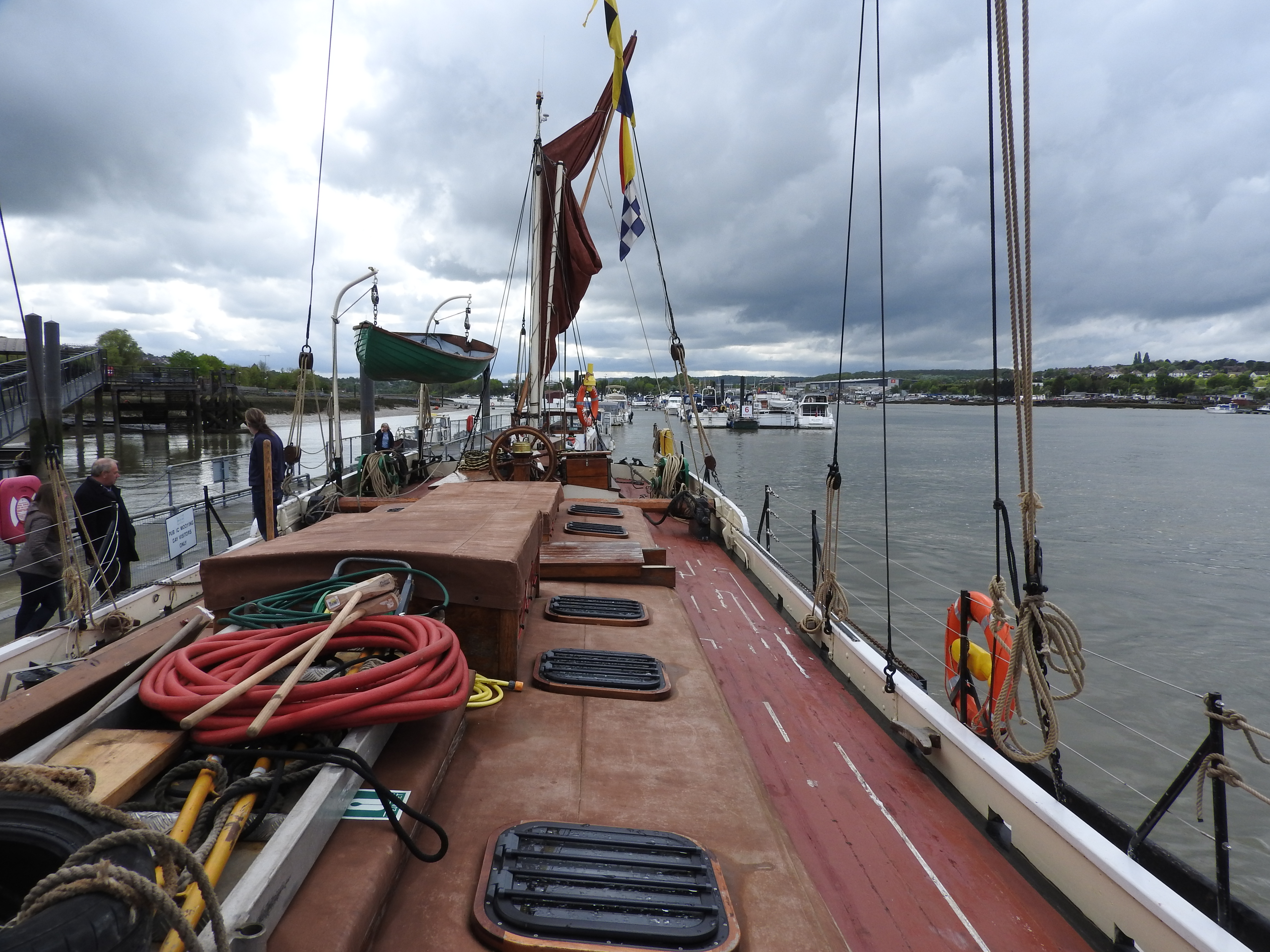 SB Kitty (1895) visiting the 2017 Rochester Sweeps Festival. Launched in April 1895 by John and Herbert Cann, of Gashouse Creek, Harwich, for Horatio (‘Raish’) Horlock and three co-owners, KITTY is one of the oldest spritsail barges still in commission.